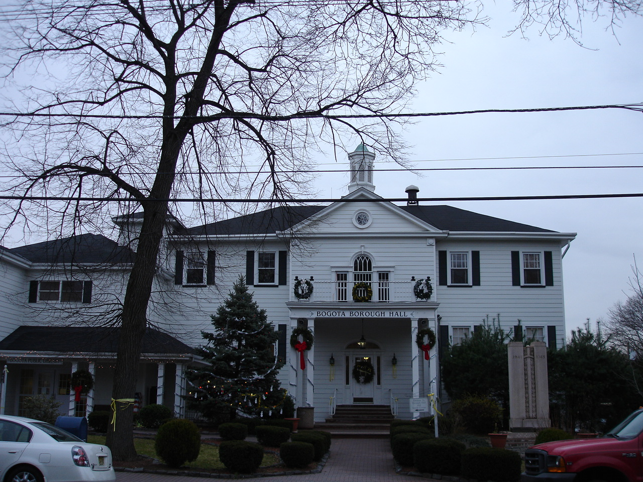 I took this photo in December of 2006